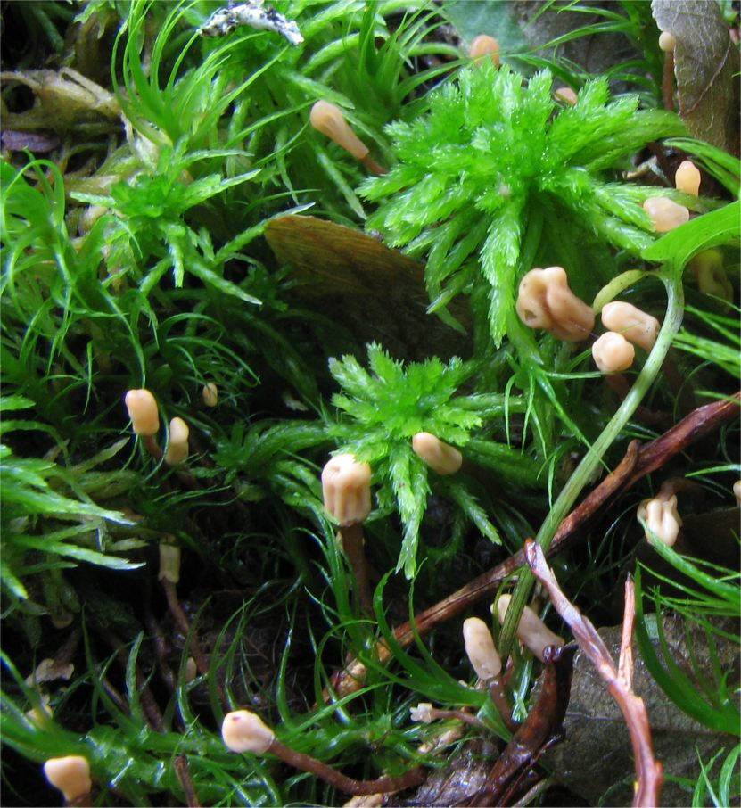 The fungus Heyderia abietis, growing among moss. Specimen photographed in Hörnefors, Västerbotten, Sweden.